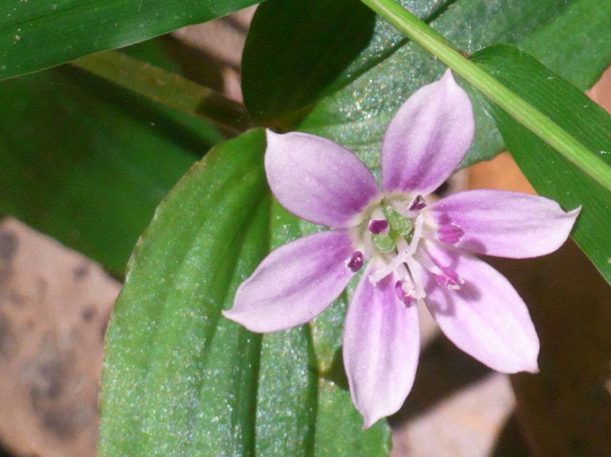 Lilac Lily, probably Schelhammera undulata, Chatswood West, Australia